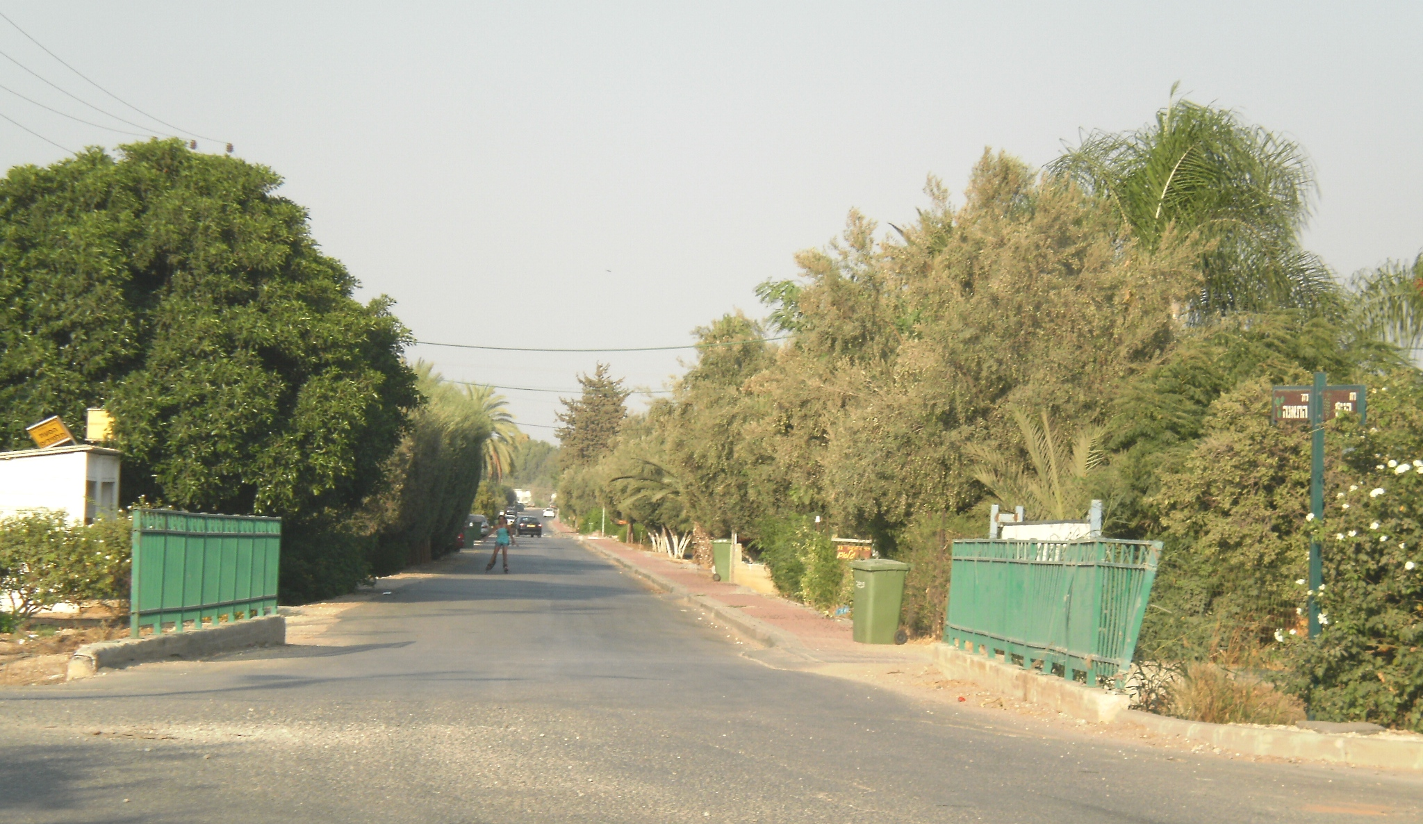 a street in Moshav Yatzitz, Gezer Regional Council, Israel